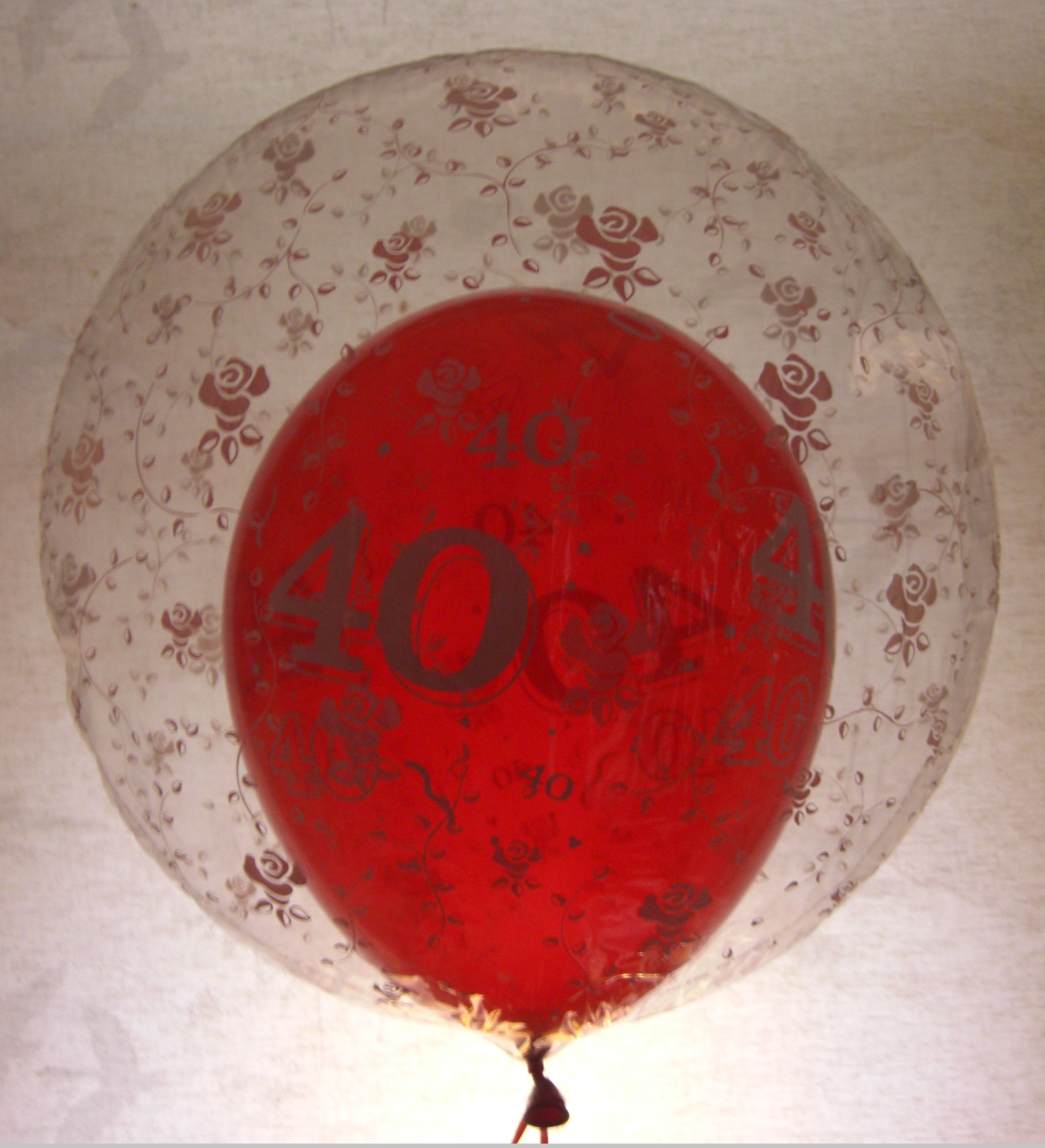 A balloon within a balloon illustrating the principle of an airship's ballonet